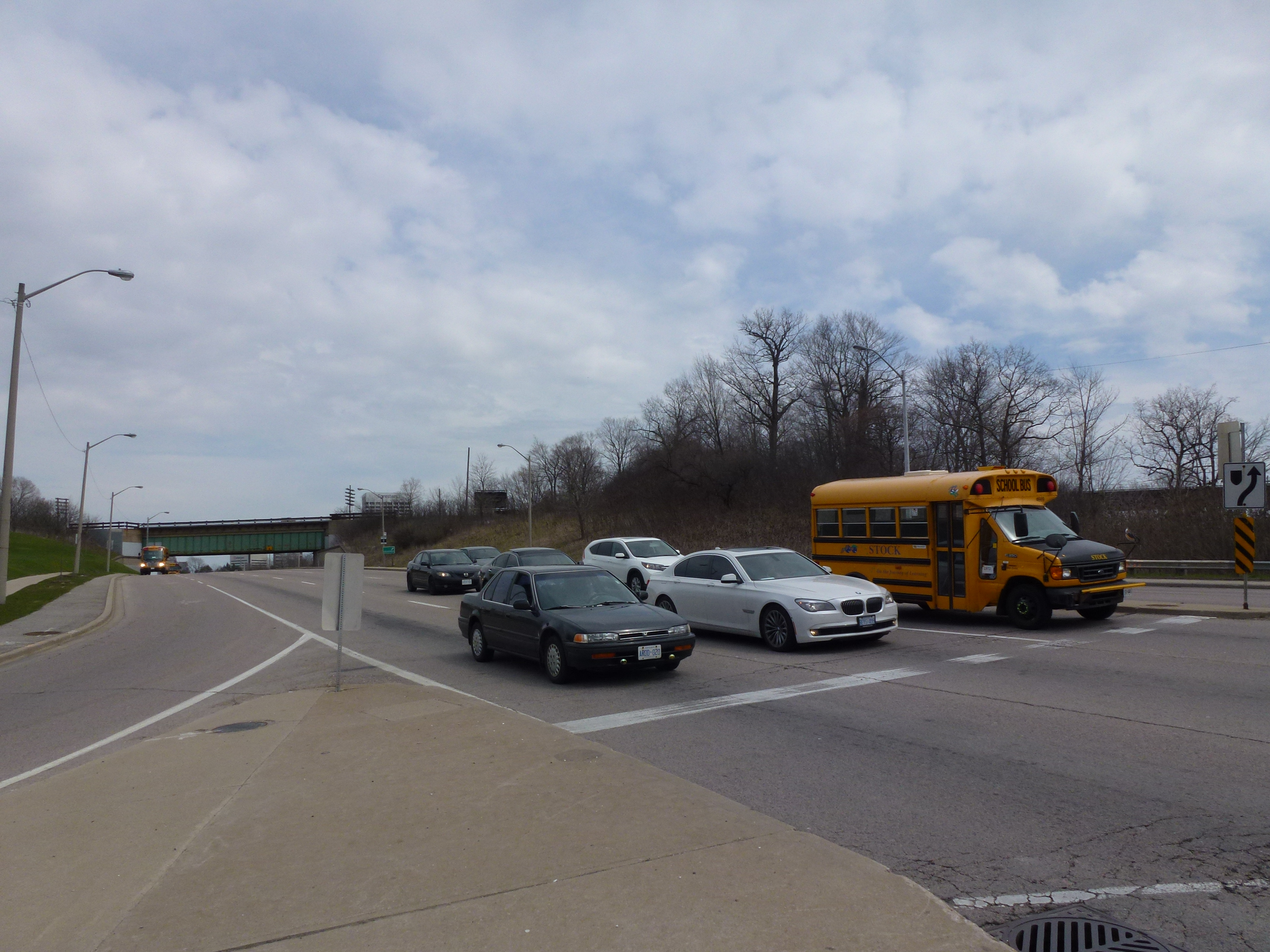 Parts of panoramas of intersections where there will be Eglinton Crosstown LRT stations, GPS embedded, taken 2013 04 25 (168).JPG On April 9, 2013, the day the first tunnel boring machine started to bore the Eglinton Crosstown, I bought a TTC day pass and got off to take "before" pictures of the site of every future underground station between Mount Dennis and Yonge Street. On April 25 I took "before" photos of the future sites of stations east of Yonge I plan to return for "after" pictures when the Crosstown opens in 2020. This photo was taken near the future site of the Leslie LRT station.